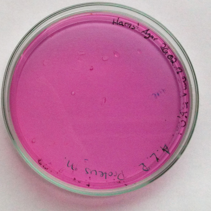 Cosenzaea myxofaciens (formerly classified as Proteus myxofaciens) on urea agar acc. to Christensen, showing a positive result (the microorganism has the ability to produce the enzyme urease in order to hydrolyze urea to ammonia).